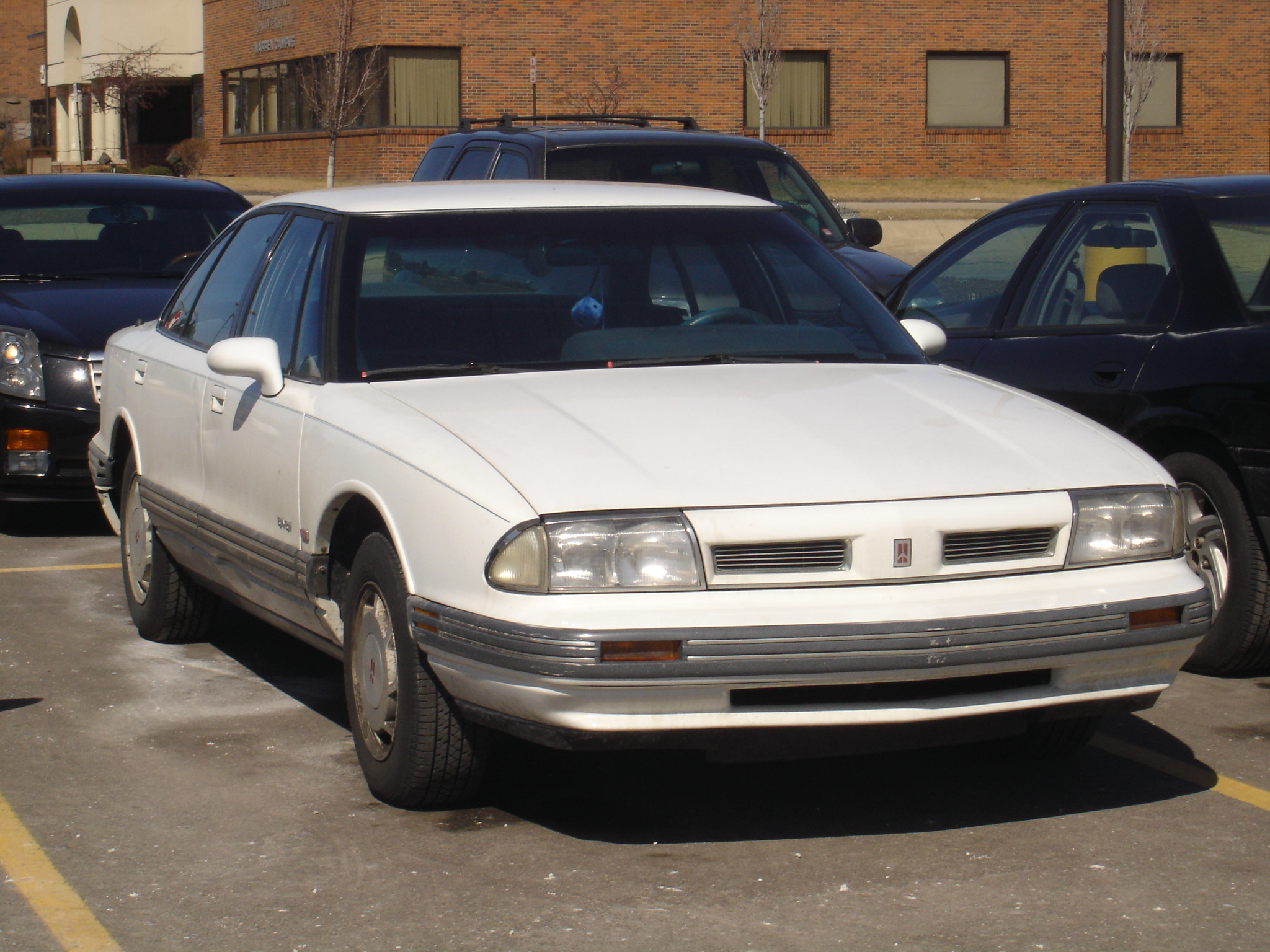 1991 Oldsmobile Eighty-Eight Royale